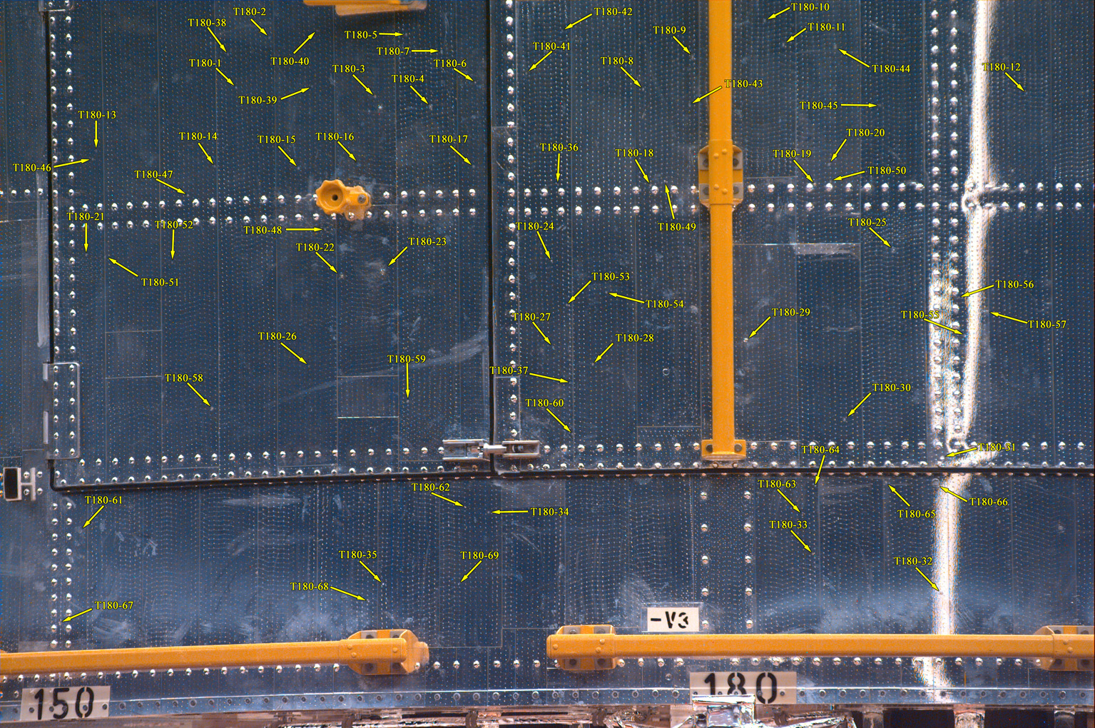 Debris impacts in returned parts from HST. After in space repairs to the Hubble Space Telescope, the returned parts show many orbital debris impacts.